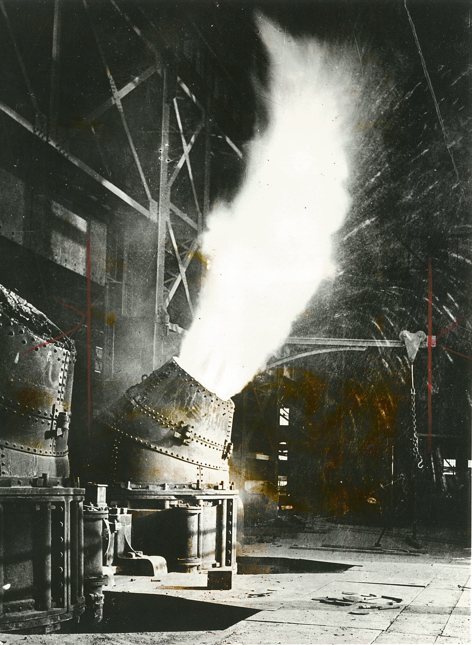 A picture of the bessemer converter at Lackawanna Steel, dated 1903. This bessemer converter was brought to Lackawanna, New York from the original Lackawanna Works in Pennsylvania